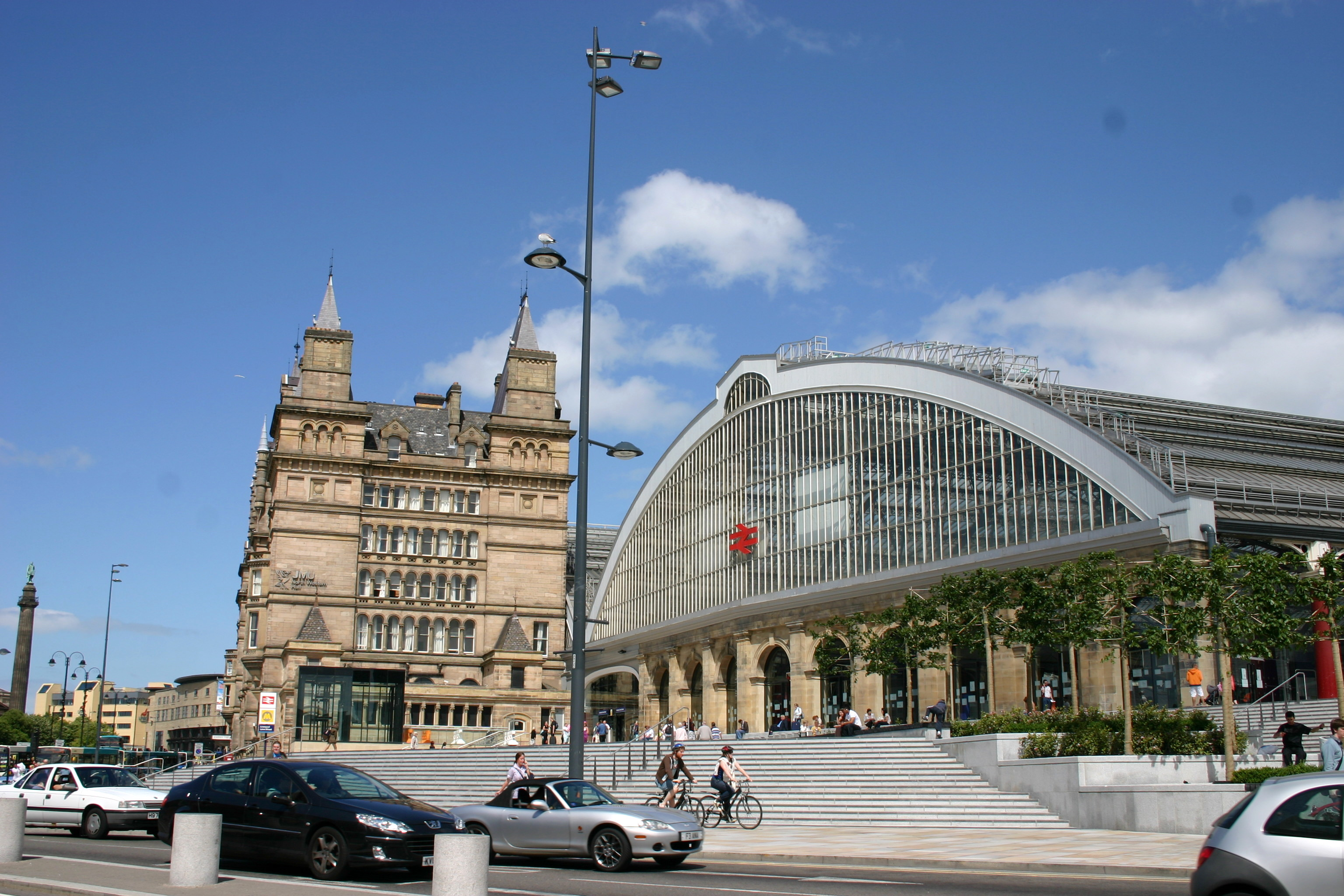 Liverpool Lime Street railway station after renovation in July 2010.